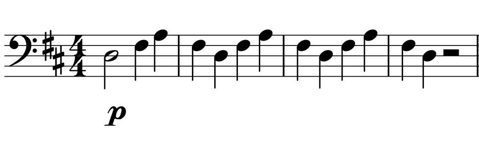 Joseph Haydn, Symphony No. 53, first movement, bass, bar 1-4